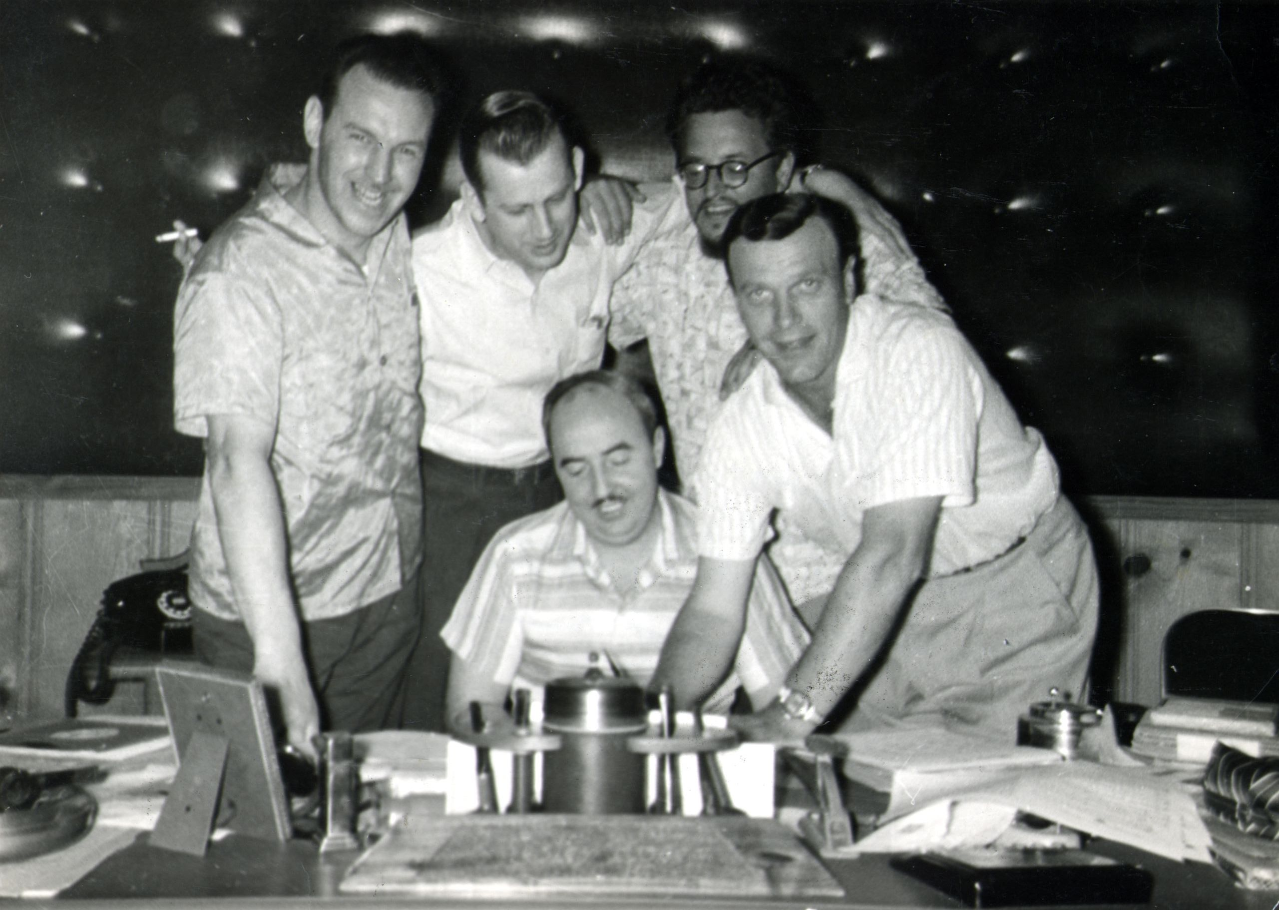 1957 B&W photograph of Donn Reynolds in recording studio with George Morgan, Wesley Rose, Boudleaux Bryant, and Eddy Arnold (Nashville, Tennessee).